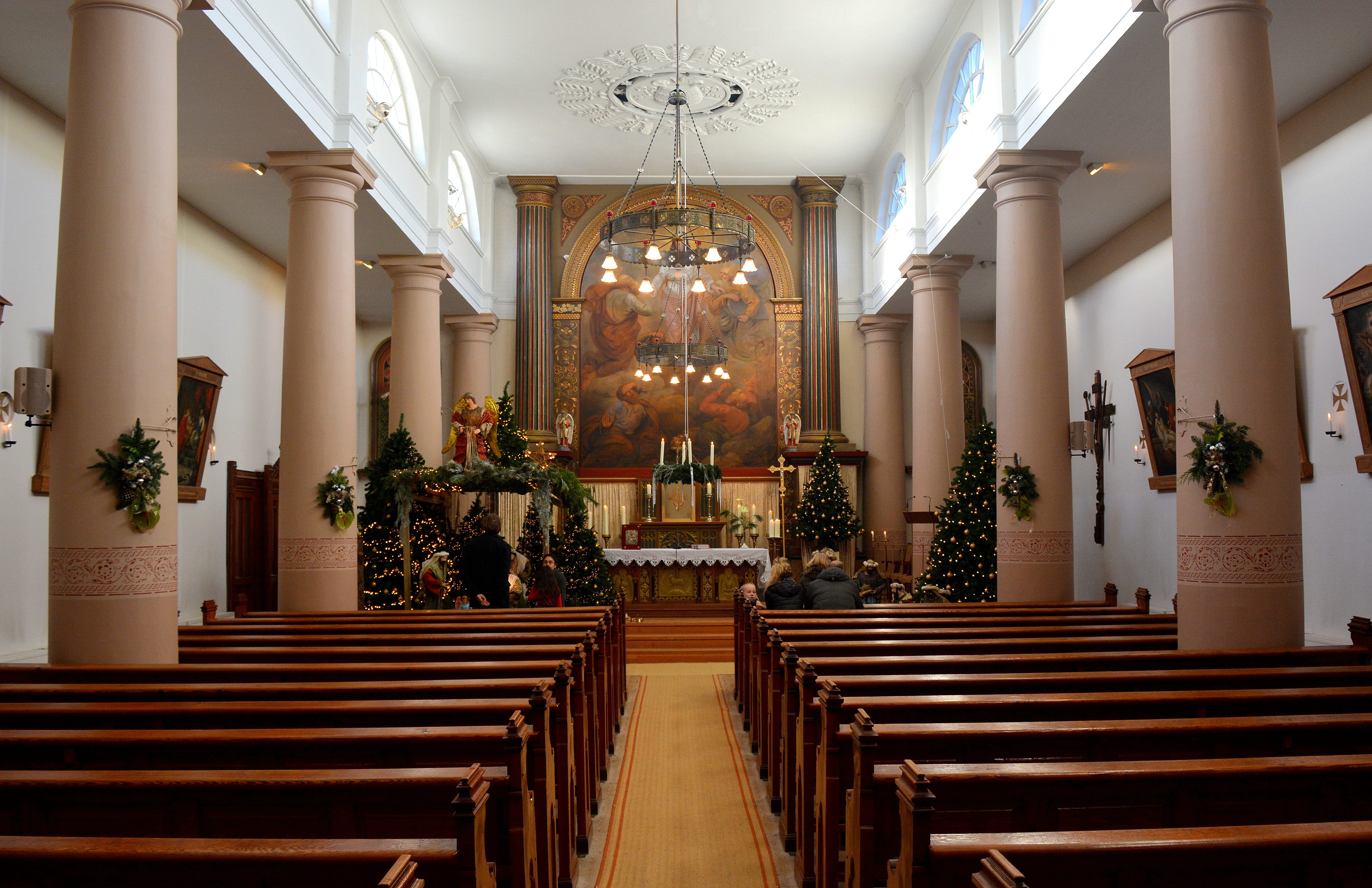 Dronryp, Church of the Nativity of the Blessed Virgin Mary, interior